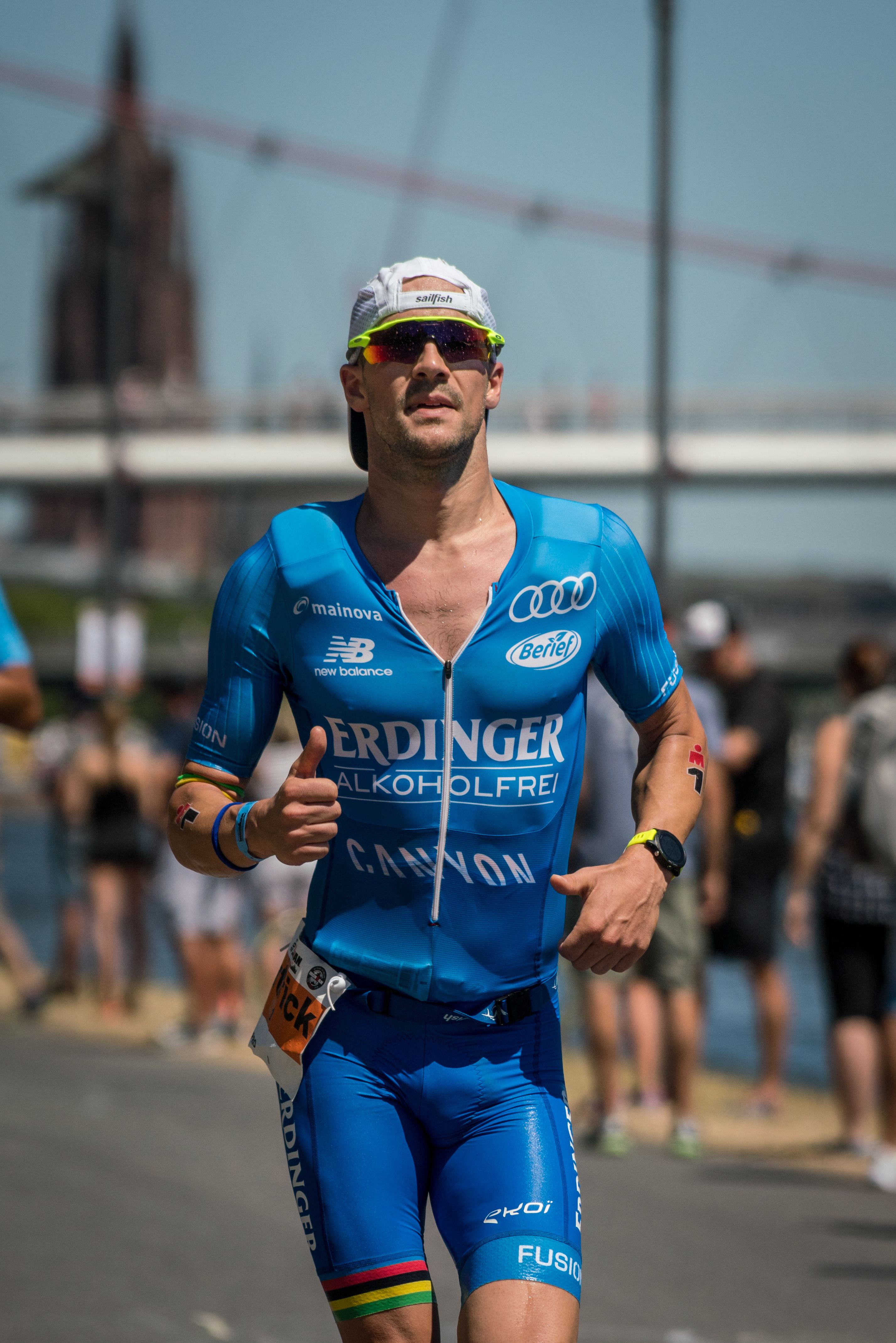 Third male Patrick Lange at the 2018 Ironman European Championship in Frankfurt am Main (Germany).